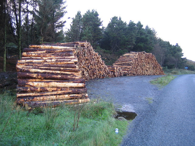 Foildarrig. Commercial forestry is one of the main industries on the Beara Peninsula. Here cut timber awaits collection by the side of the R571 road between Castletown Bearhaven and Eyeries in the townland of Foildarrig.